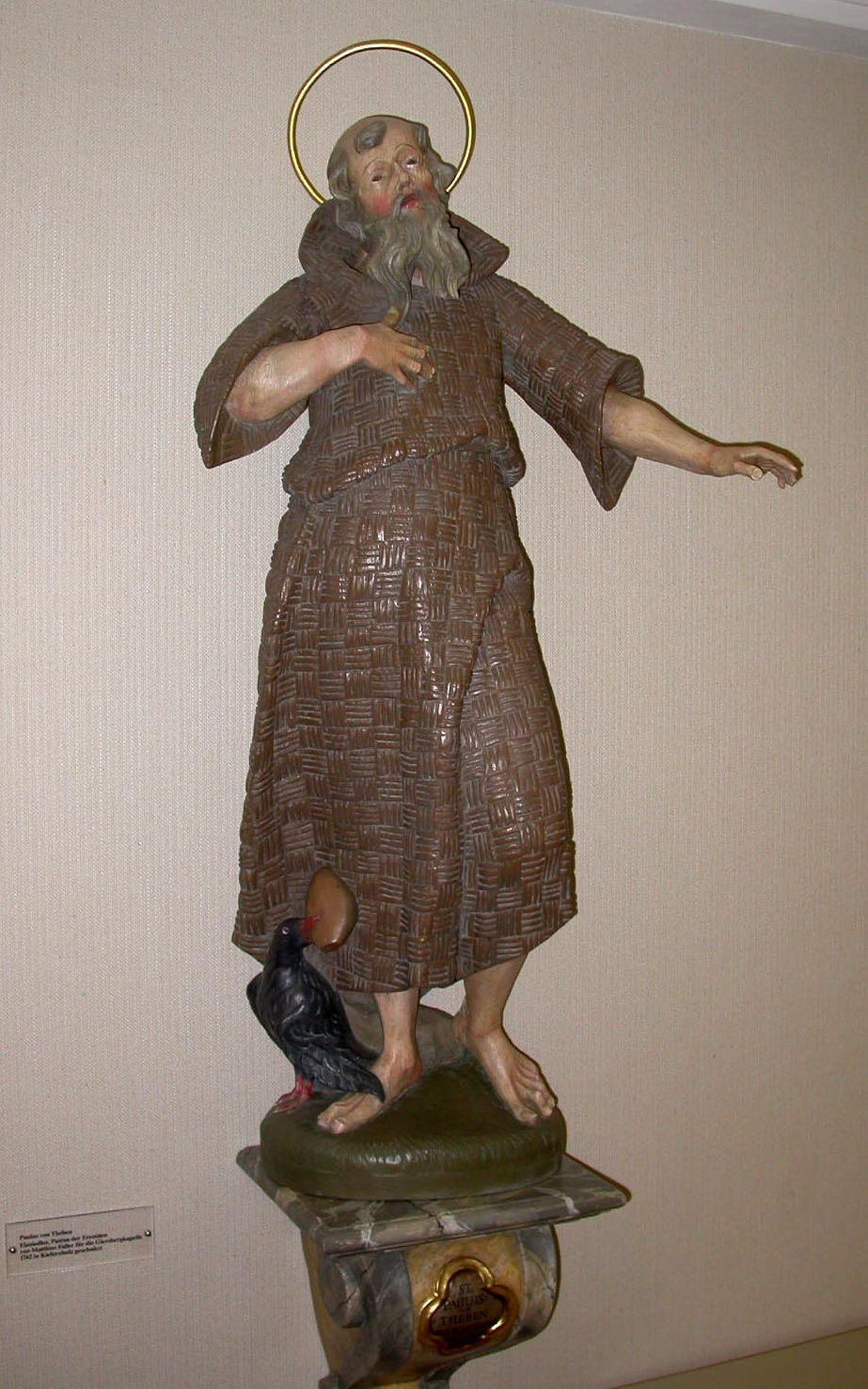 St. Paul of Egypt. Sculpture by Matthias Faller in Gemeindehaus of the parish of St. Gallus Kirchzarten, Germany